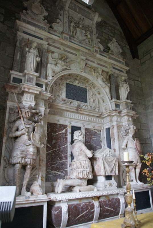 Scone Palace, Scone, Perth and Kinross, Scotland - Interior of the Moot Hill Chapel: memorial for David Murray, 1st Viscount of Stormont